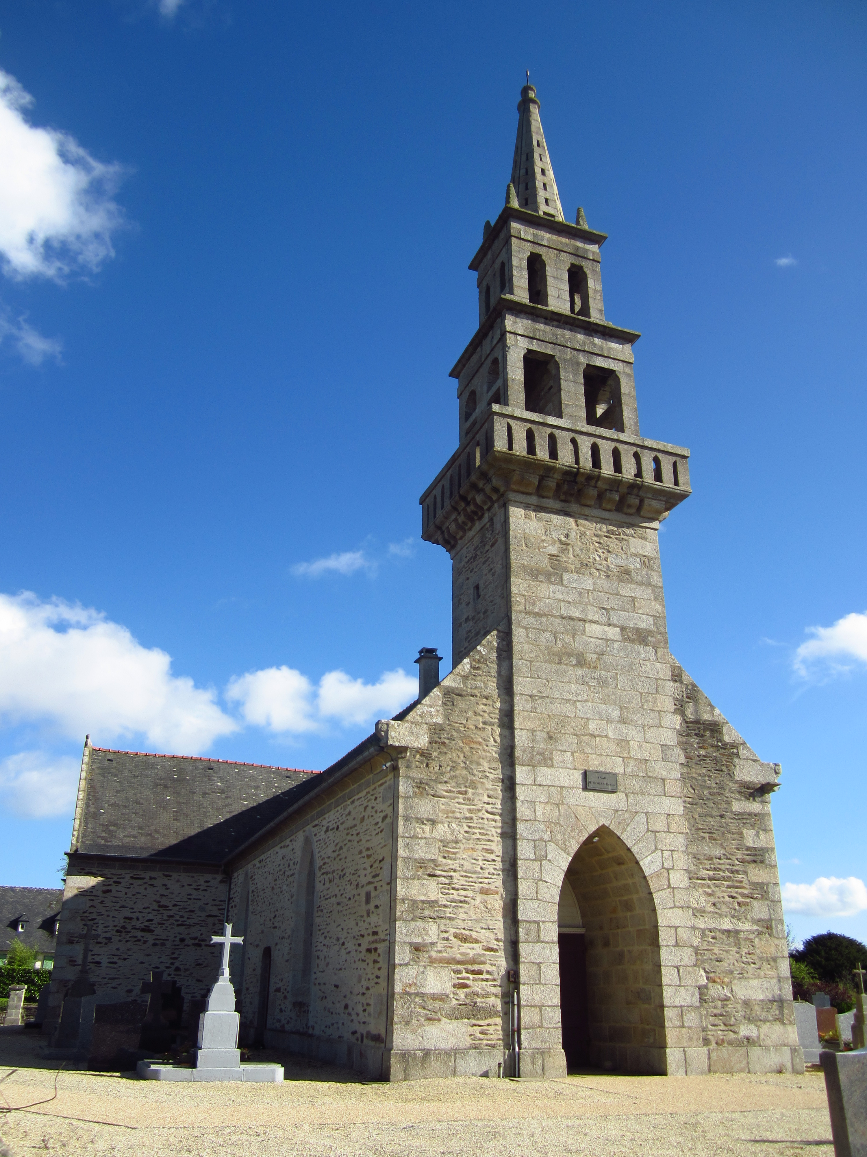 Church of Lanarvily, Finistère